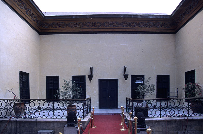 Entrance of the Manastirli palace, Roda island, Cairo, Egypt